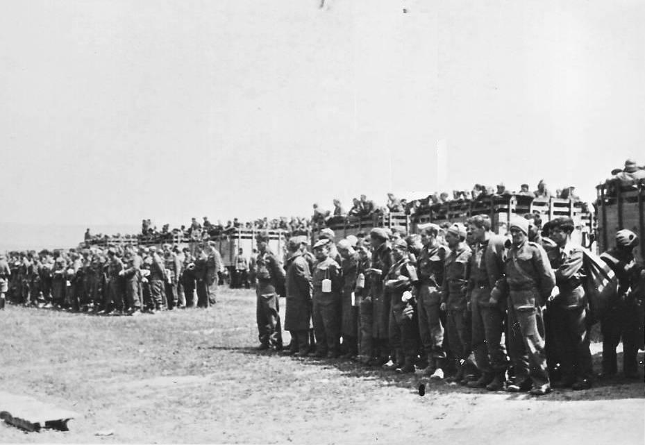 Captured french soldiers, may 1940.